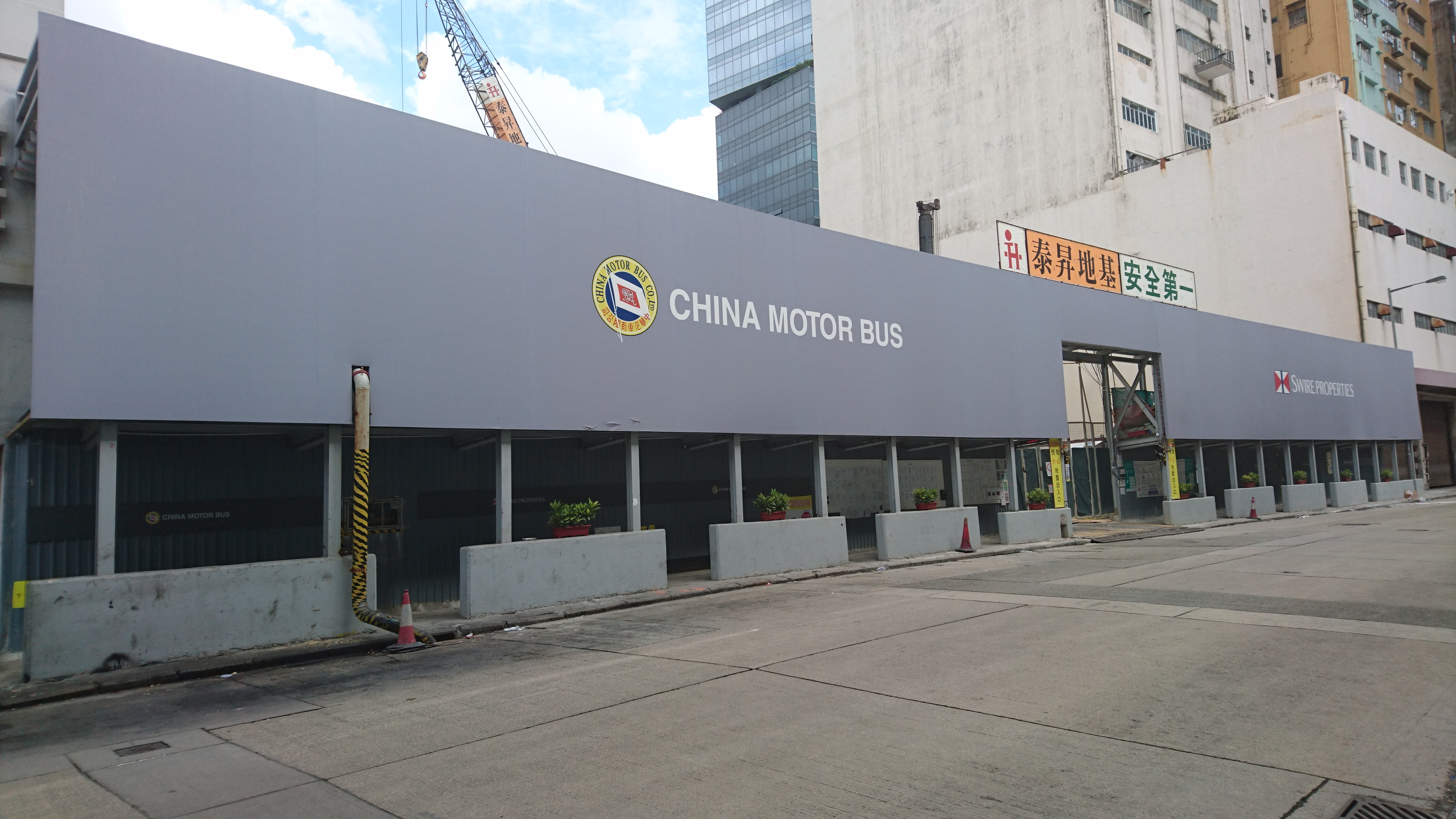 CMB Wong Chuk Hang Former Bus Depot Development Site in 2015